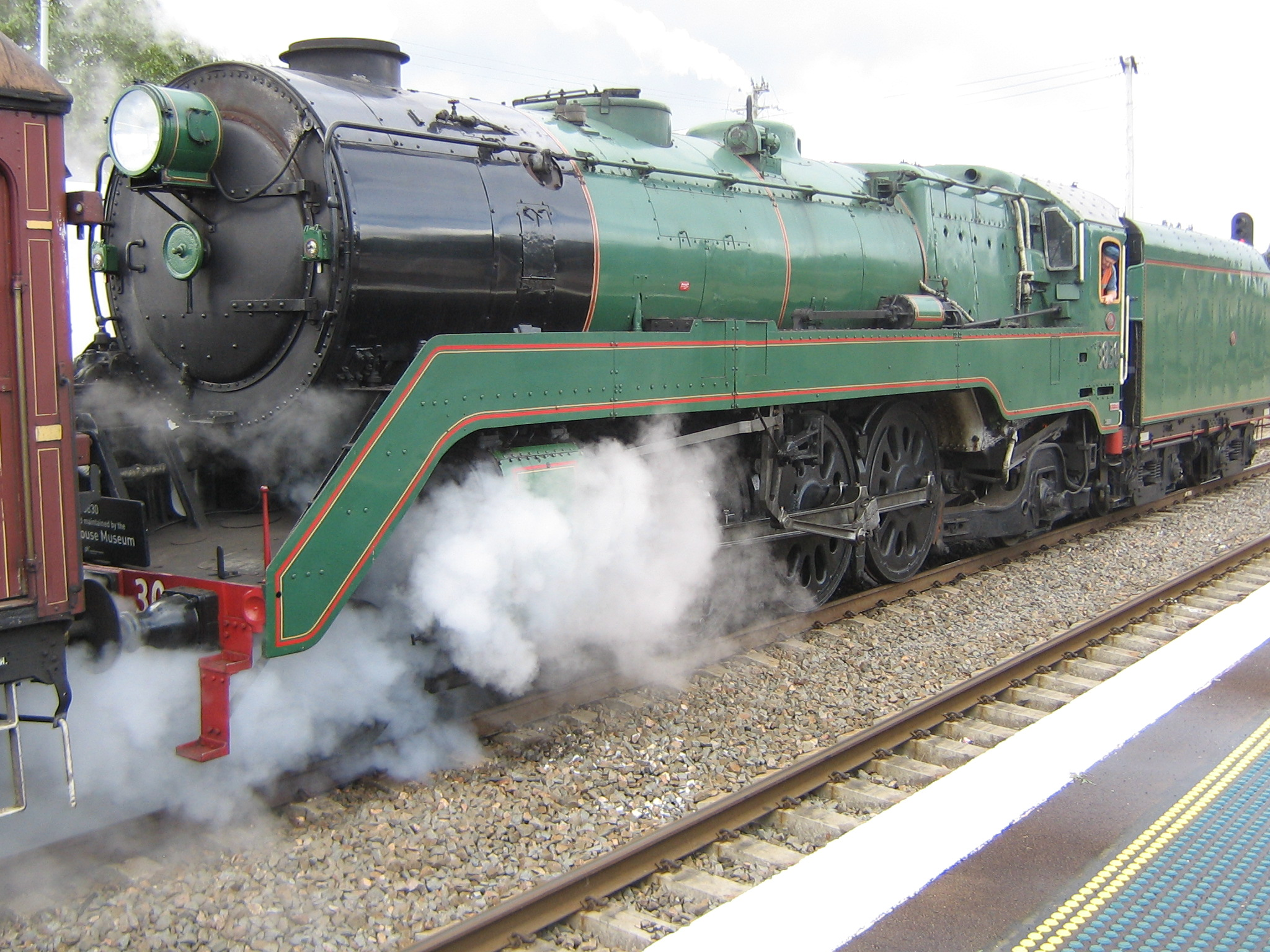 3830 leaving Maitland Station During the Hunter Valley Steamfest 2008